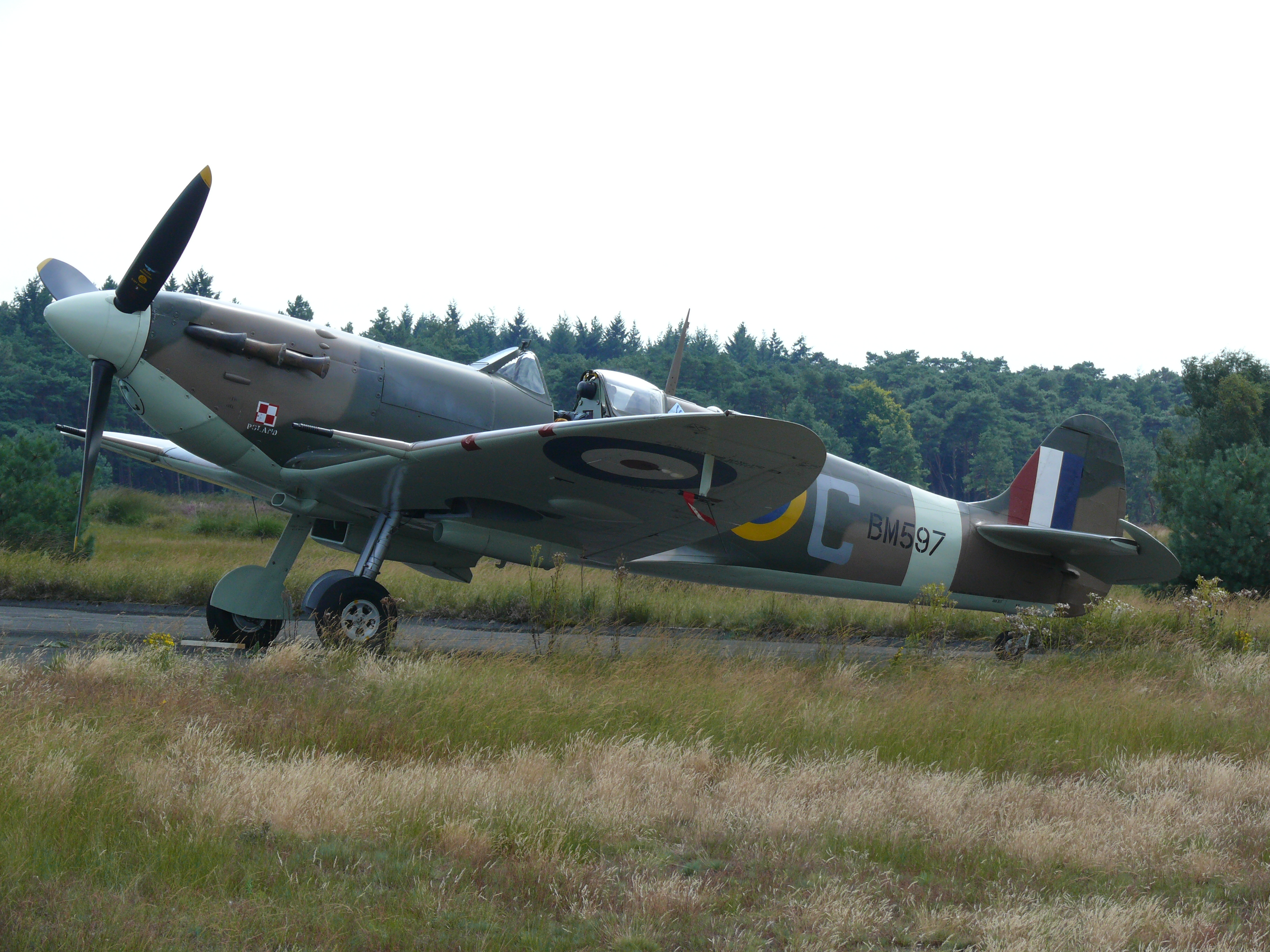 Supermarine Spitfire Mk.Vb, (G-MKVB), BM597. One of 1000 aircraft built at Castle Bromwich , BM597 was delivered to No.37 M.U. at Burtenwood on 26 February 1942, being assigned to 315 Sqn on 7 May 1942 and on to 317 Sqn on 5 September 1942, both at Woodvale. It was retired on 16 October 1945.